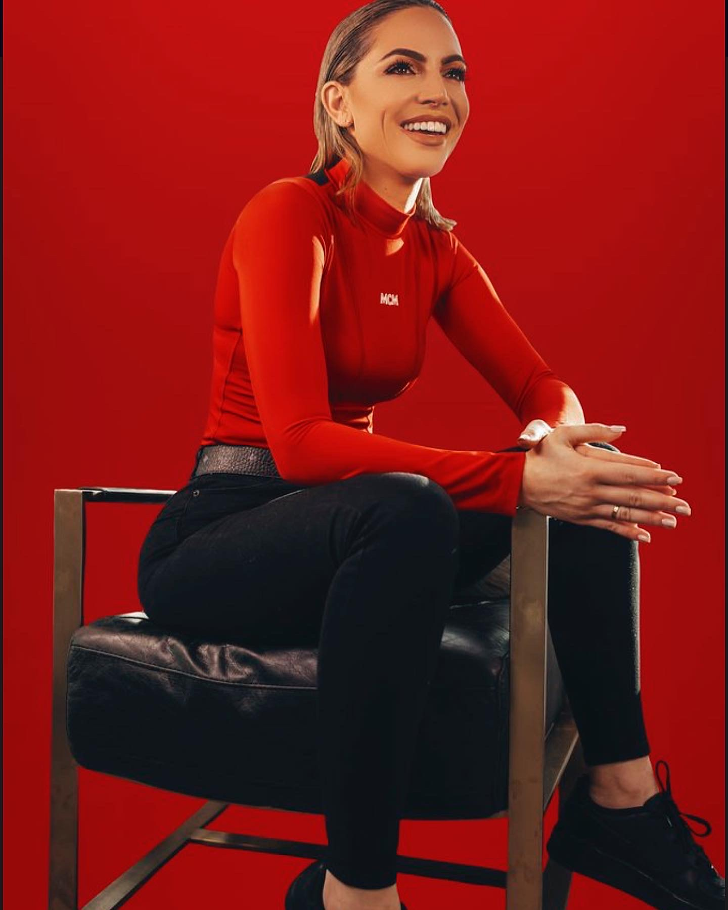 2019 Book Promo Photoshoot